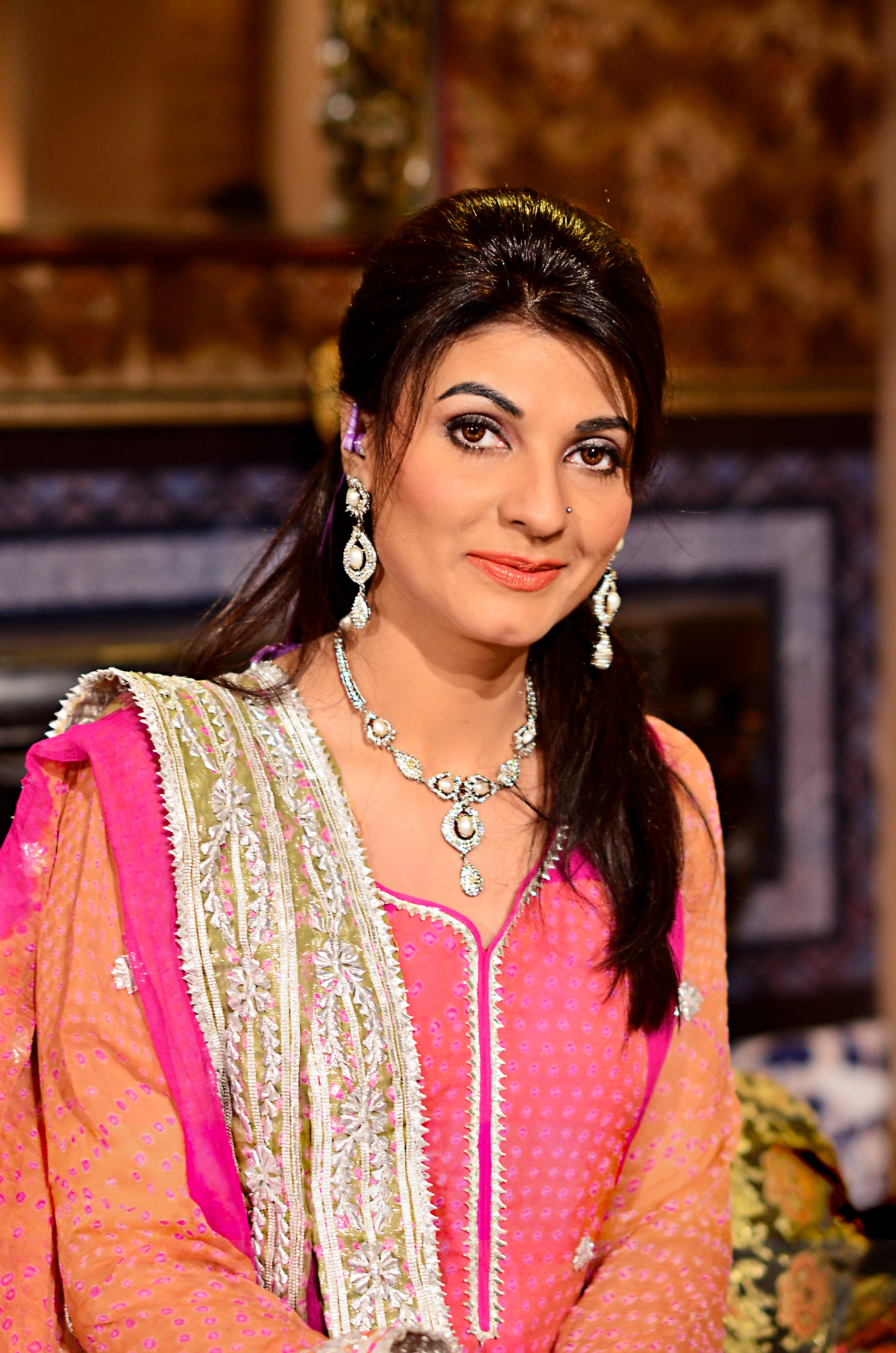 Fariha Parvez at PTV